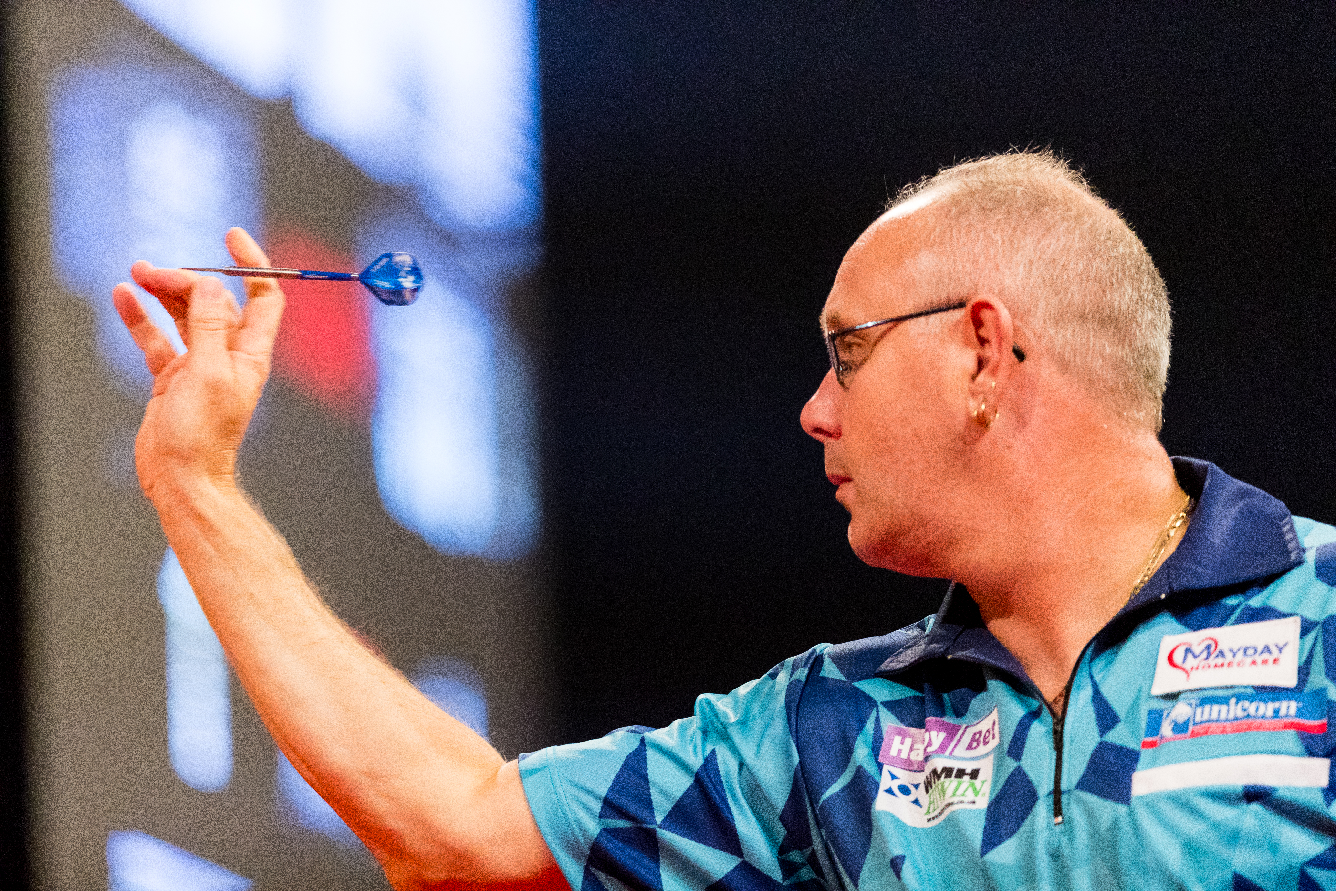 [14] Rob Cross (ENG) 6:2 [11] Ian White (ENG) during Professional Darts Corporation (PDC), German Darts Grand Prix (GDGP) at Maimarkthalle, Mannheim, Baden-Württemberg, Germany on 2017-09-10, Photo: Sven Mandel